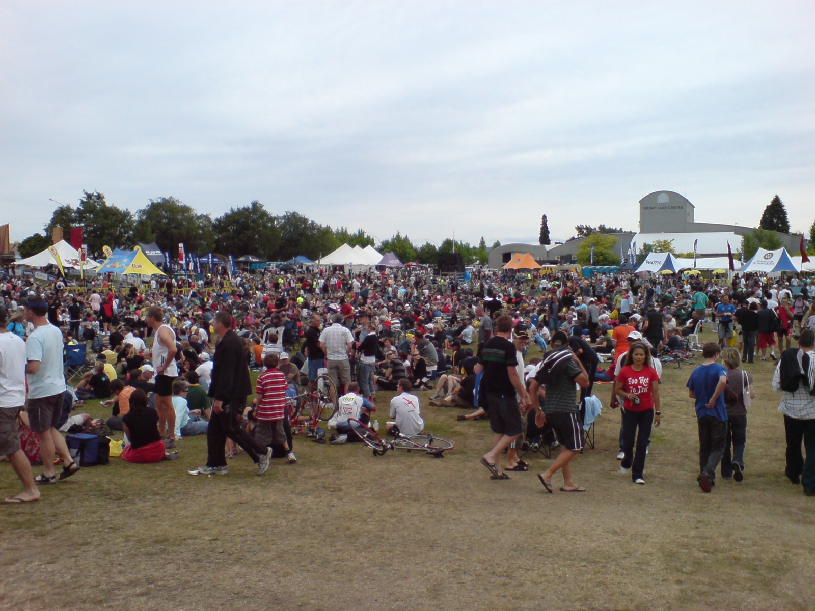 Lake Taupo Cycle Challenge 2007 - Saturday evening, the Taupo Domain. Many thousand cyclists and their supporters mingle on the Domain, resting, eating and waiting for the prizegiving ceremonies and spot prize draws. Taupo, New Zealand.